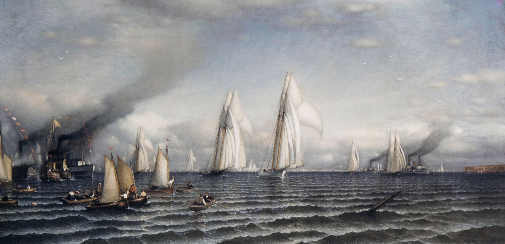 Finish — First International Race for America's Cup, August 8, 1870